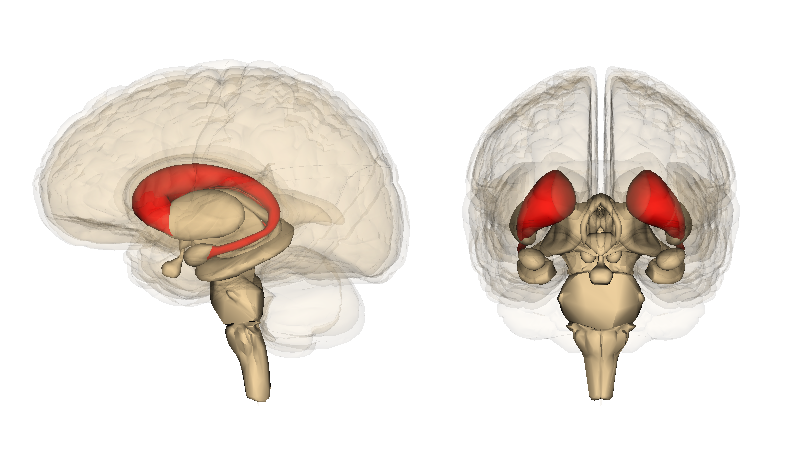 Caudate nucleus. Images are from Anatomography maintained by Life Science Databases(LSDB).